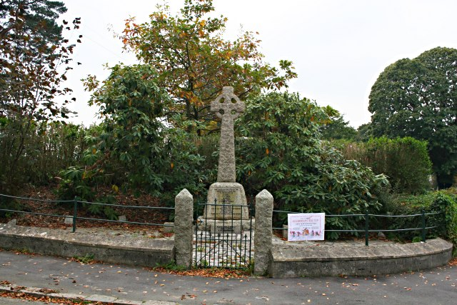 South Hill War Memorial Situated in the village of Golberdon, this is typical of the village memorials erected in Cornwall after the First World War.